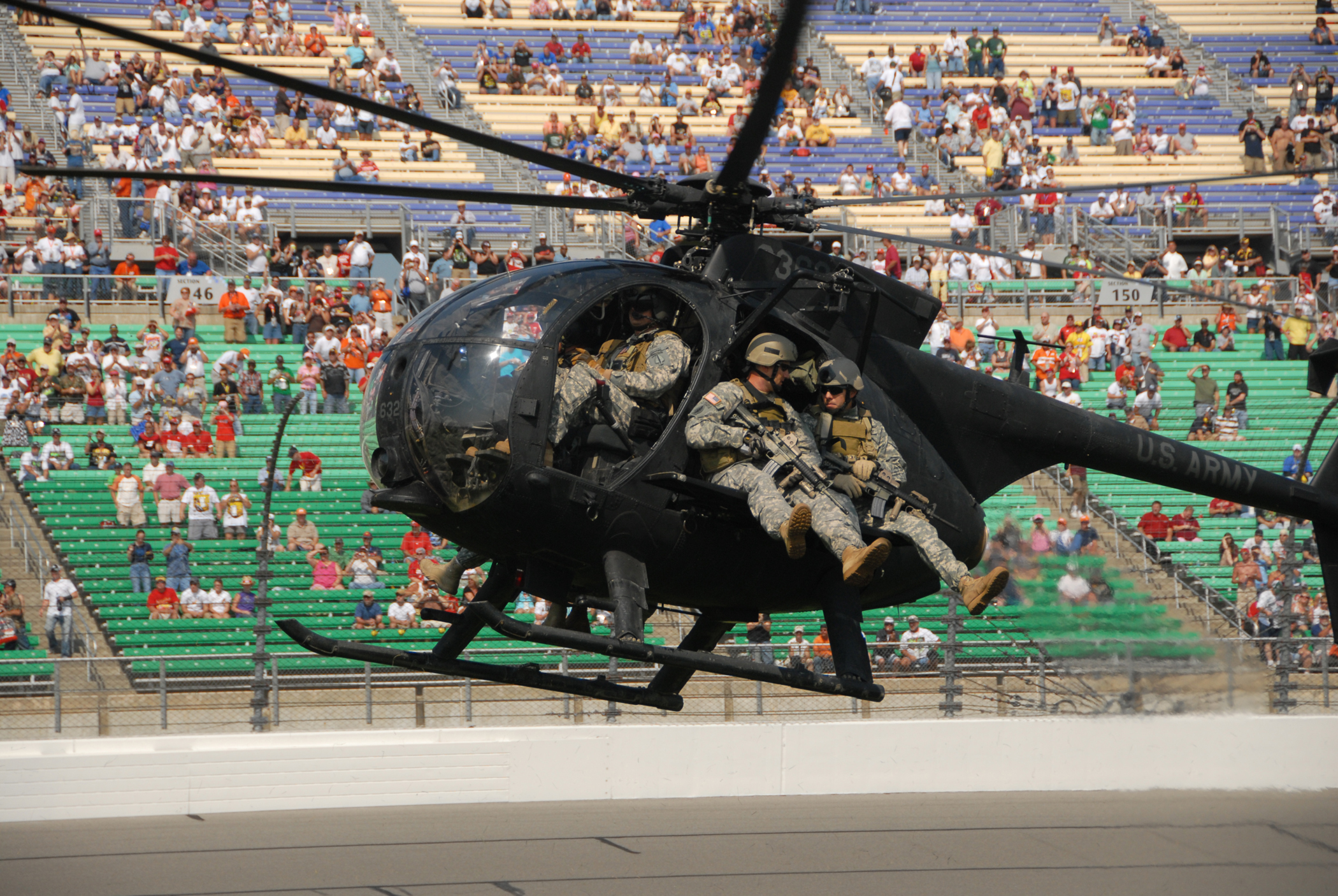 An MH-6 Little Bird from 160th SOAR carrying Special Forces Soldiers from the 5th SFG(A) prepares to land during a SOF aeriel infiltration demonstration Sept. 28 at NASCAR's Kansas Speedway 400. (Photo by Spc. Tony Hawkins, USASOC PAO)